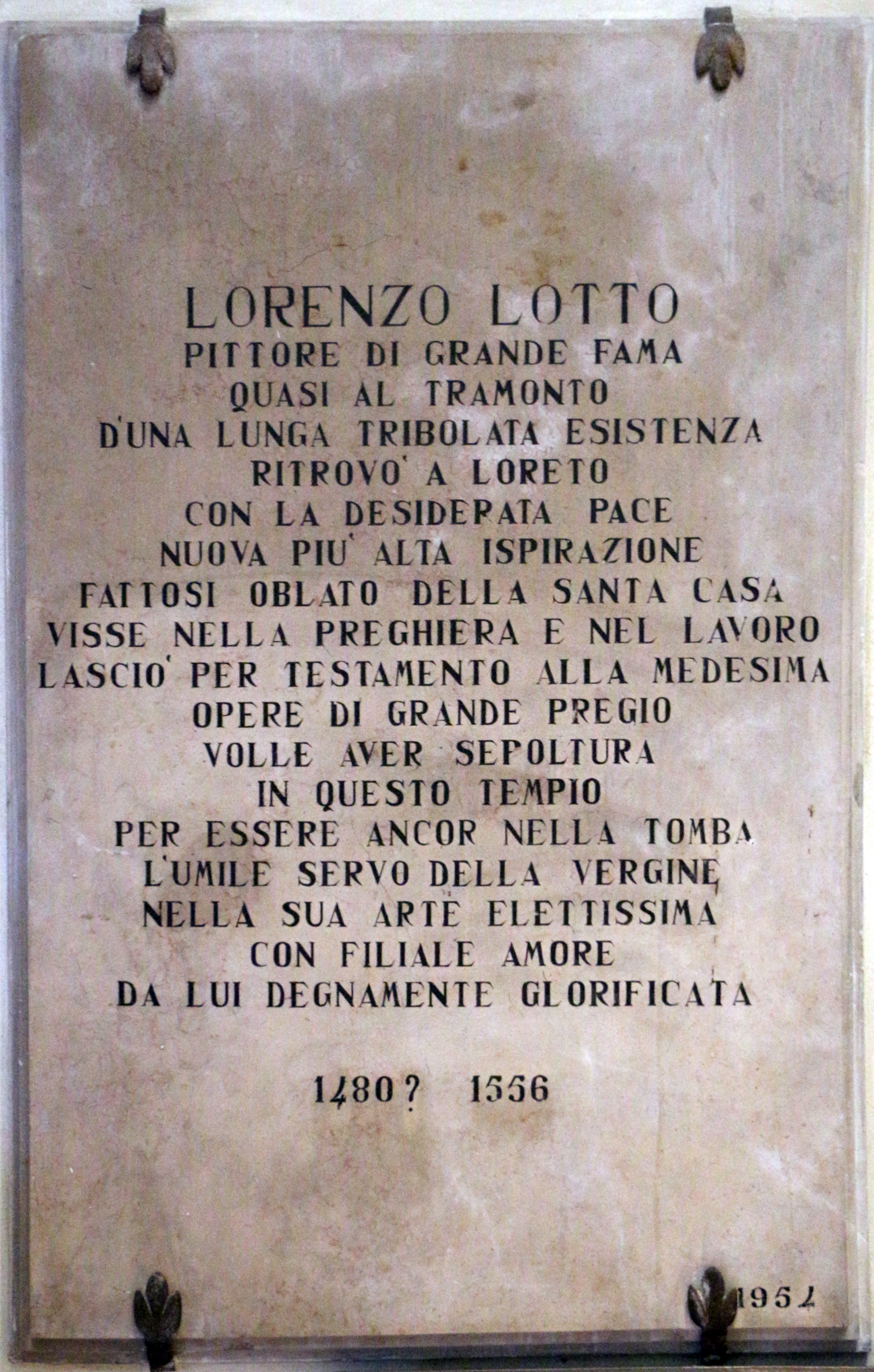 Santuario della Santa Casa (Loreto) - Interior